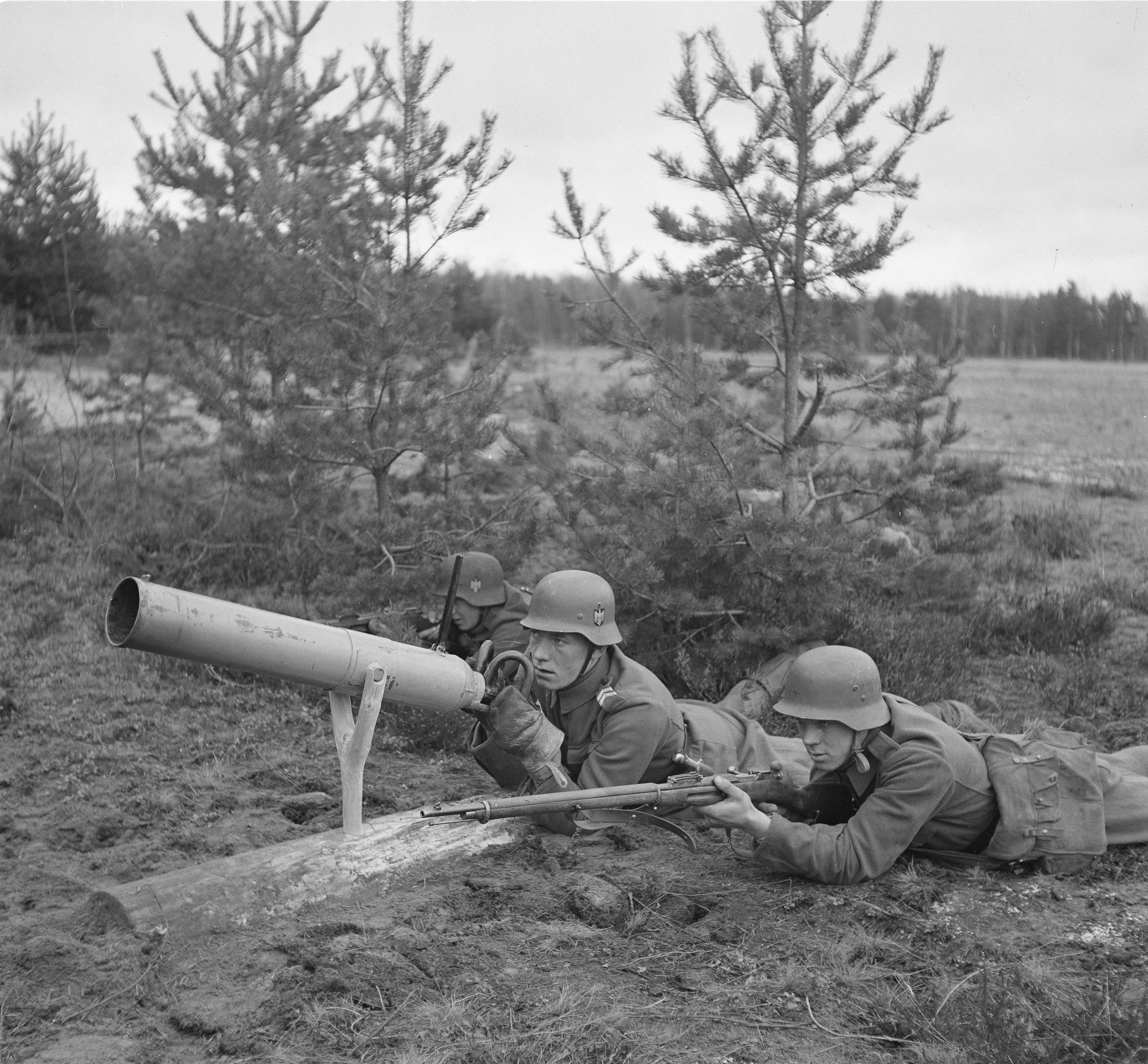 Finnish army test of trophy Soviet 125 mm ampoule thrower